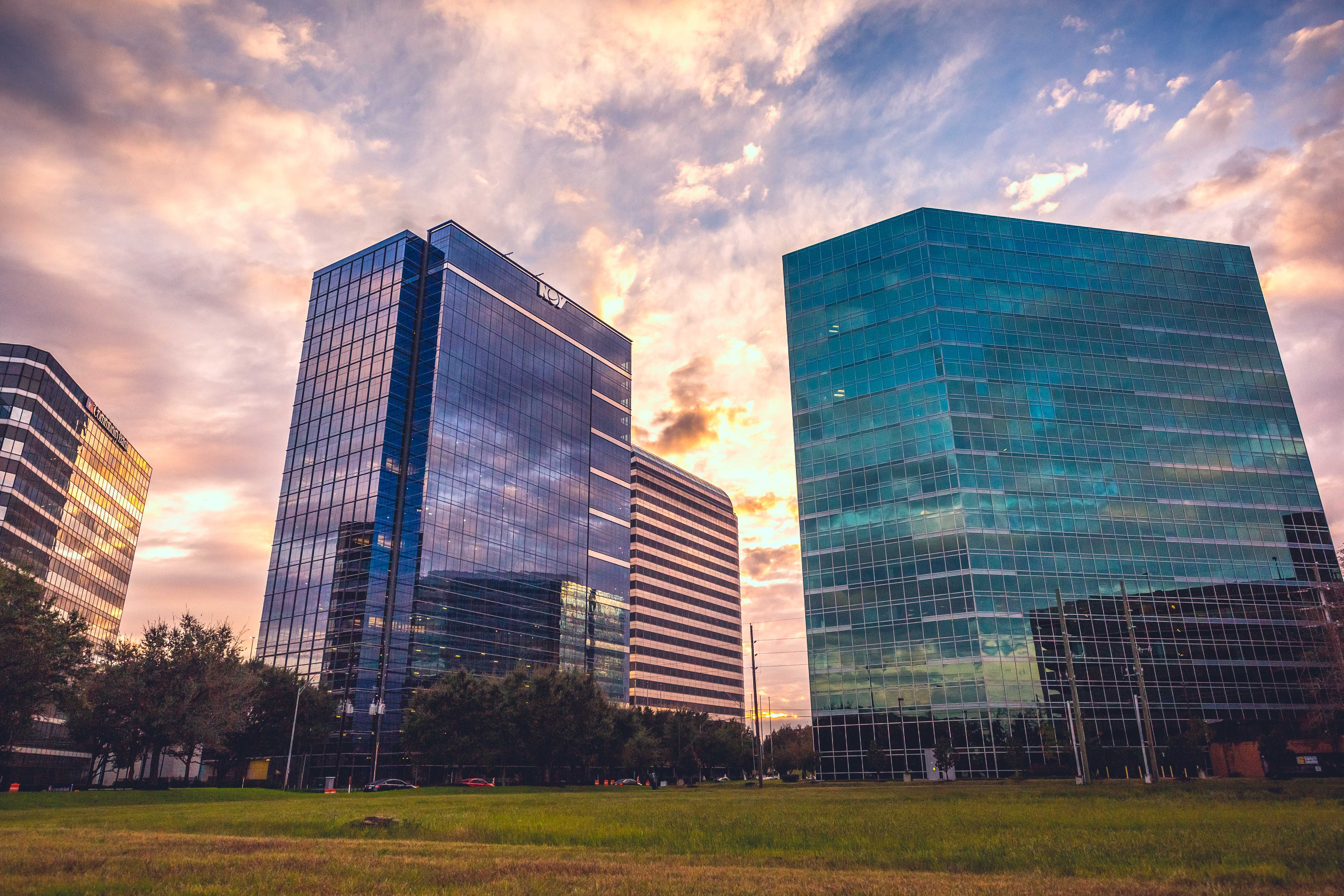 Photo shows the NOV Tower in Houston, Texas at sunset.